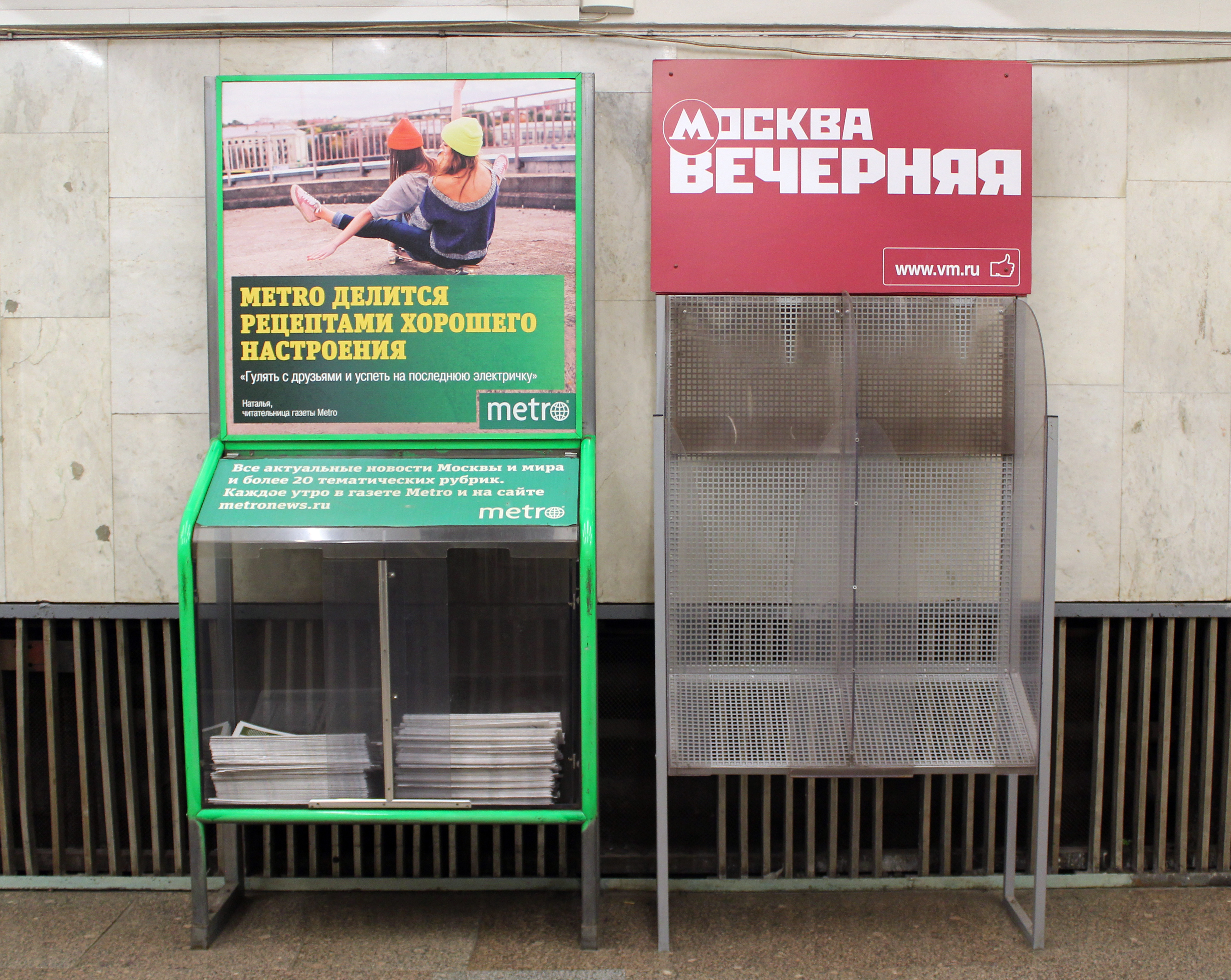 Metro and Vechernyaya Moskva vending boxes at Begovaya Metro Station in Moscow